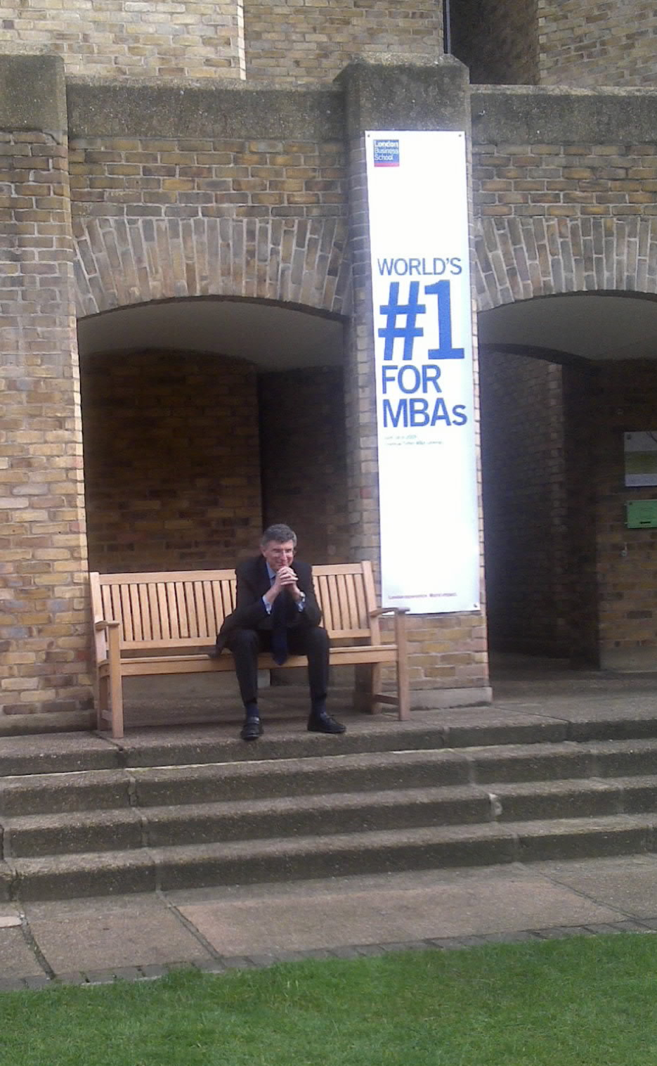 London Business School dean Sir Andrew Likierman at campus lawn, London, UK